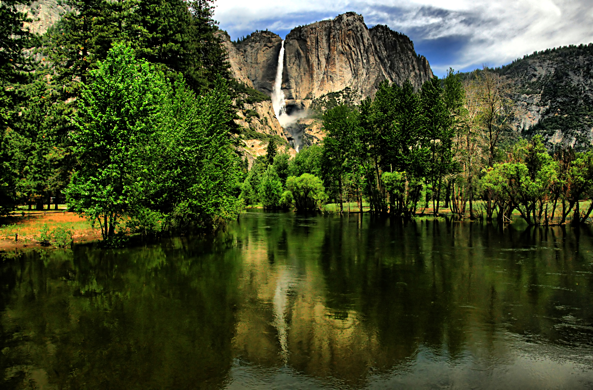 Yosemite Falls and their reflection in Merced River